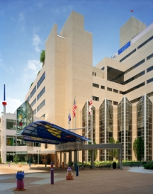 Created and granted publication by St. Louis Children's Hospital.